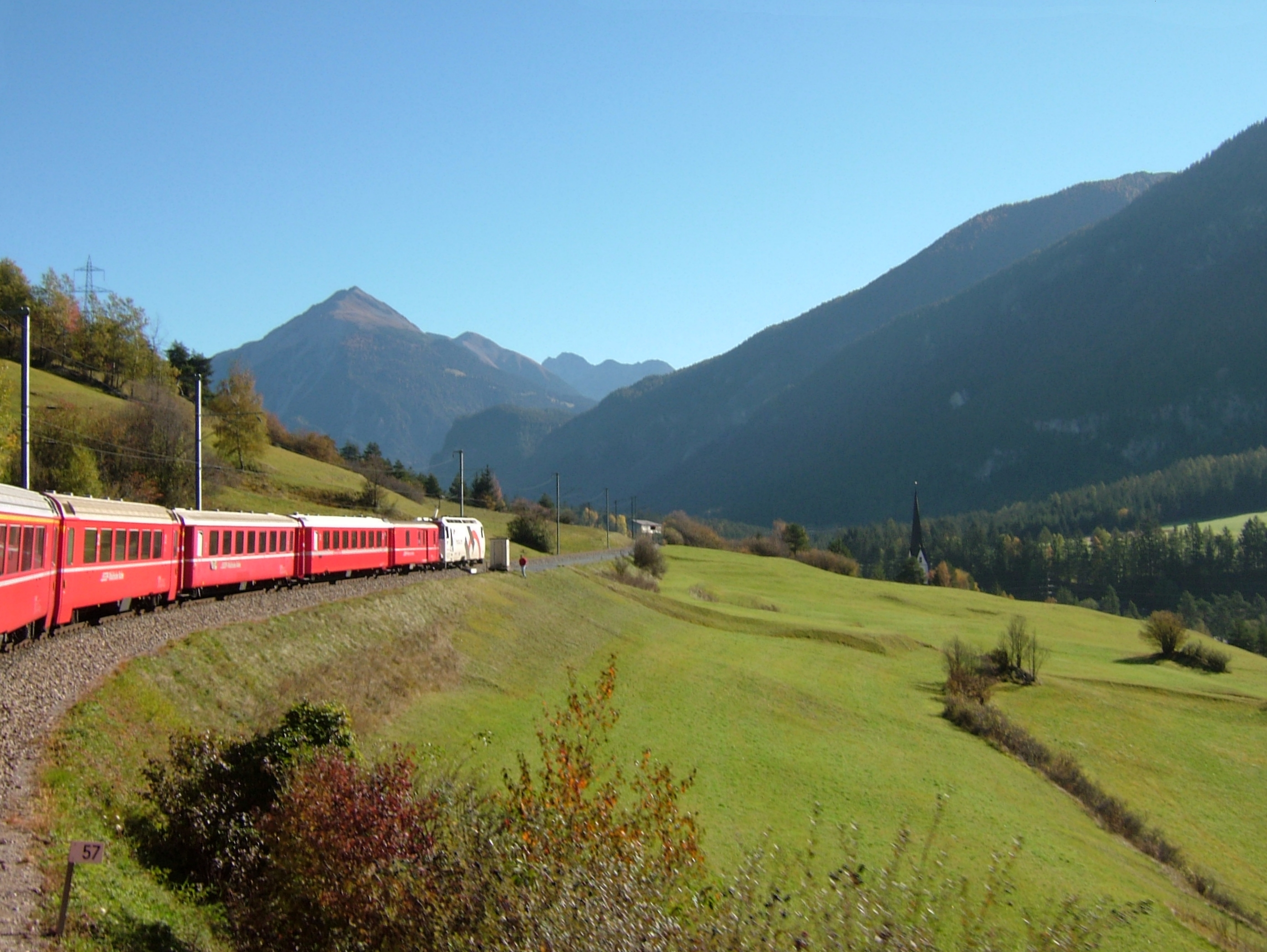 Albula RailwaySouthbound train between Tiefencastel - Filisur approaching Surava